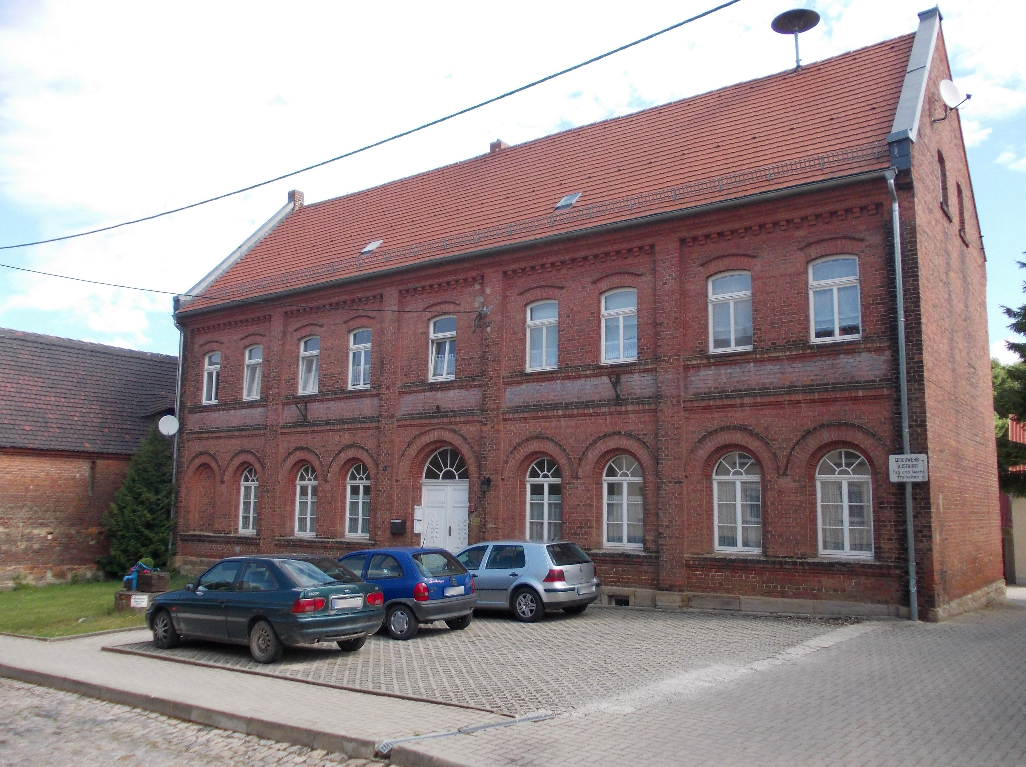 Former municipal offices of Waldau (Osterfeld, district: Burgenlandkreis, Saxony-Anhalt)